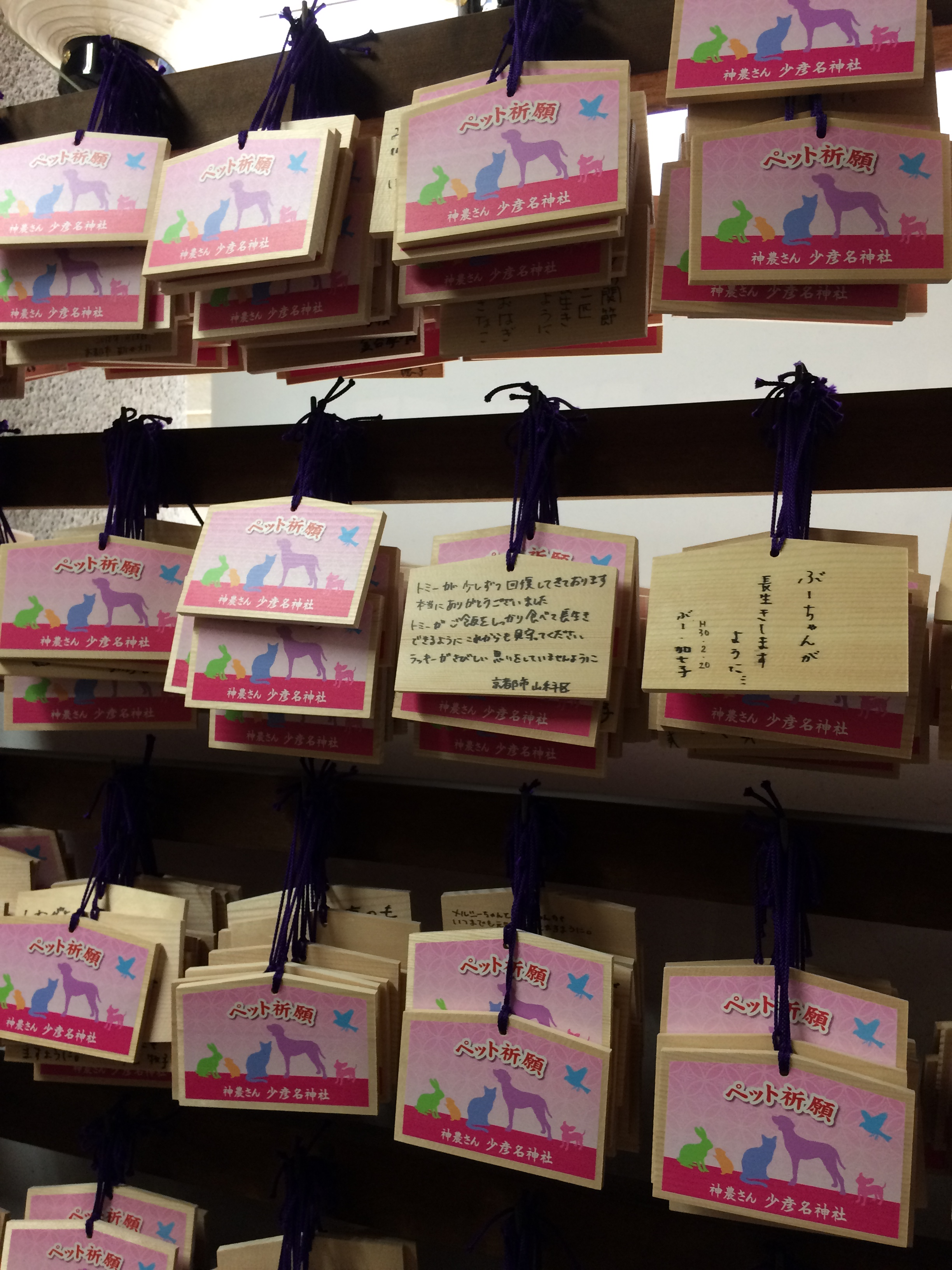 Prayer-tablet for pets in the Sukunahikona-Shrine, Osaka (Japan)